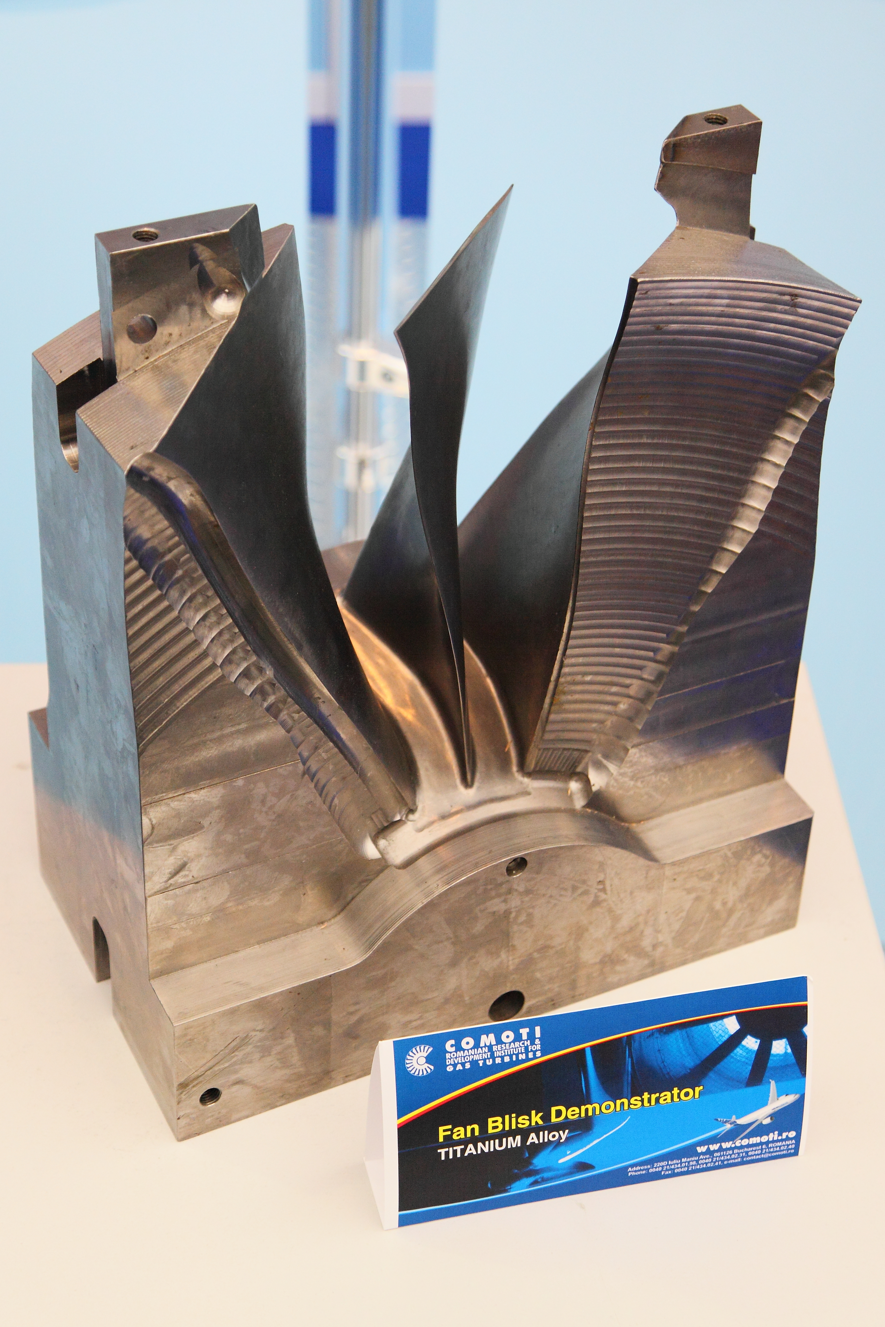 ILA Berlin Air Show 2012; Fan Blisk Demonstrator; Titanium Aloy ; COMOTI: Romanian Research and Development Institute for Gas Turbines